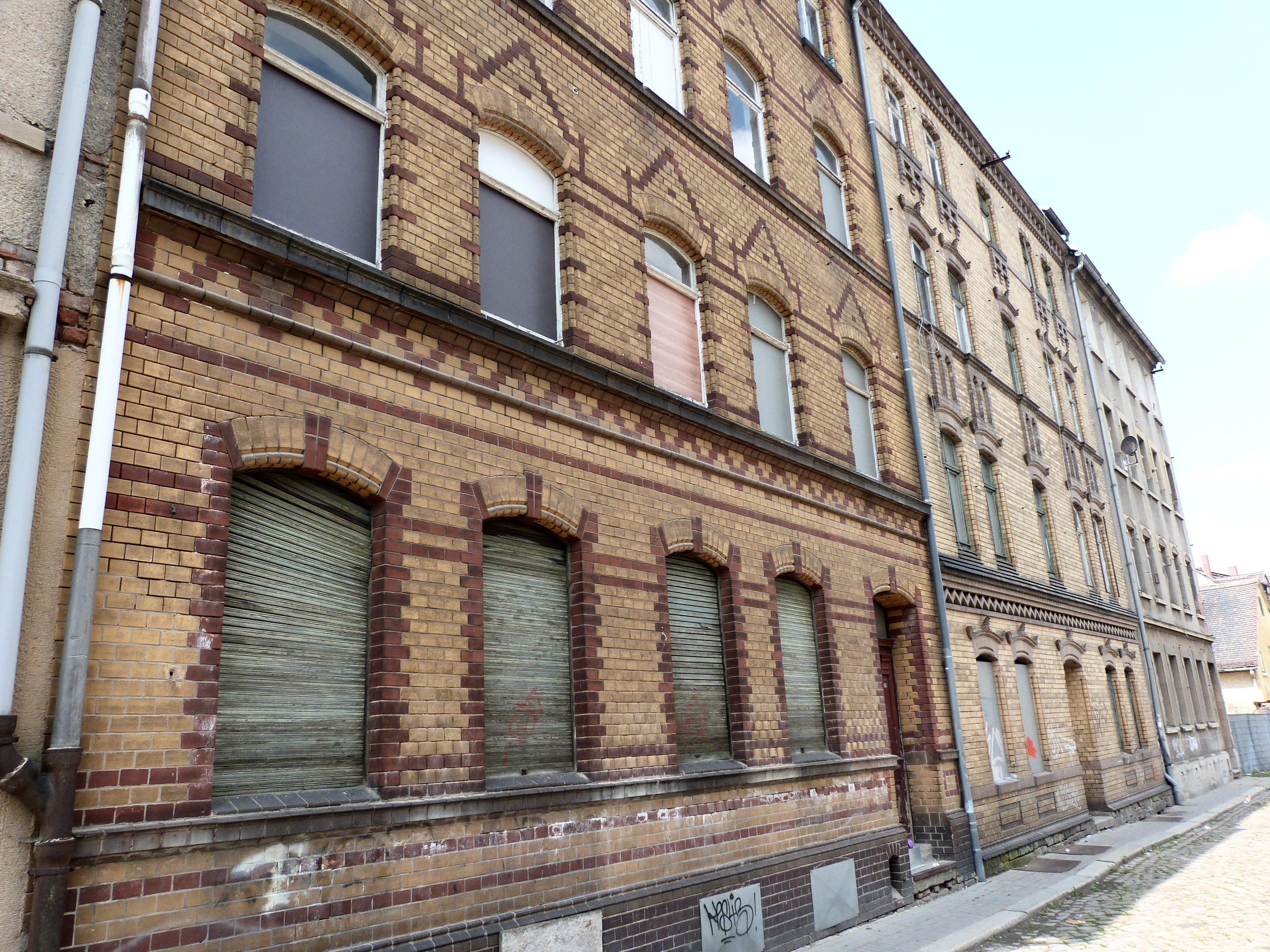 Houses No. 16, 18, 20, Zimmerstrasse, Weissenfels, Saxony-Anhalt